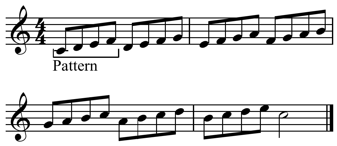 Four note ascending melodic pattern applied to the steps of an ascending C major scale.